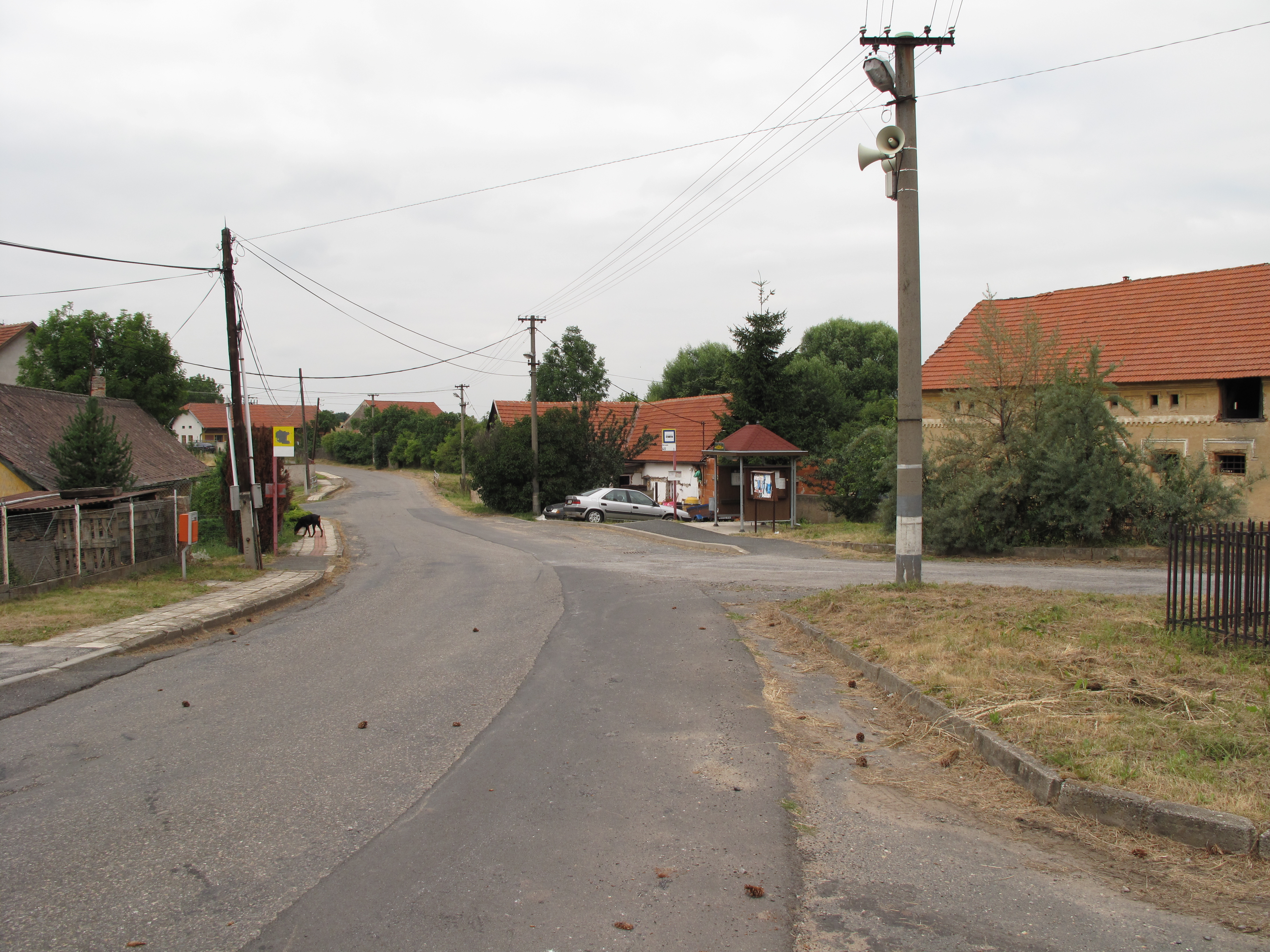 This photograph was taken within the scope of the second year of the 'Czech Municipalities Photographs' grant.